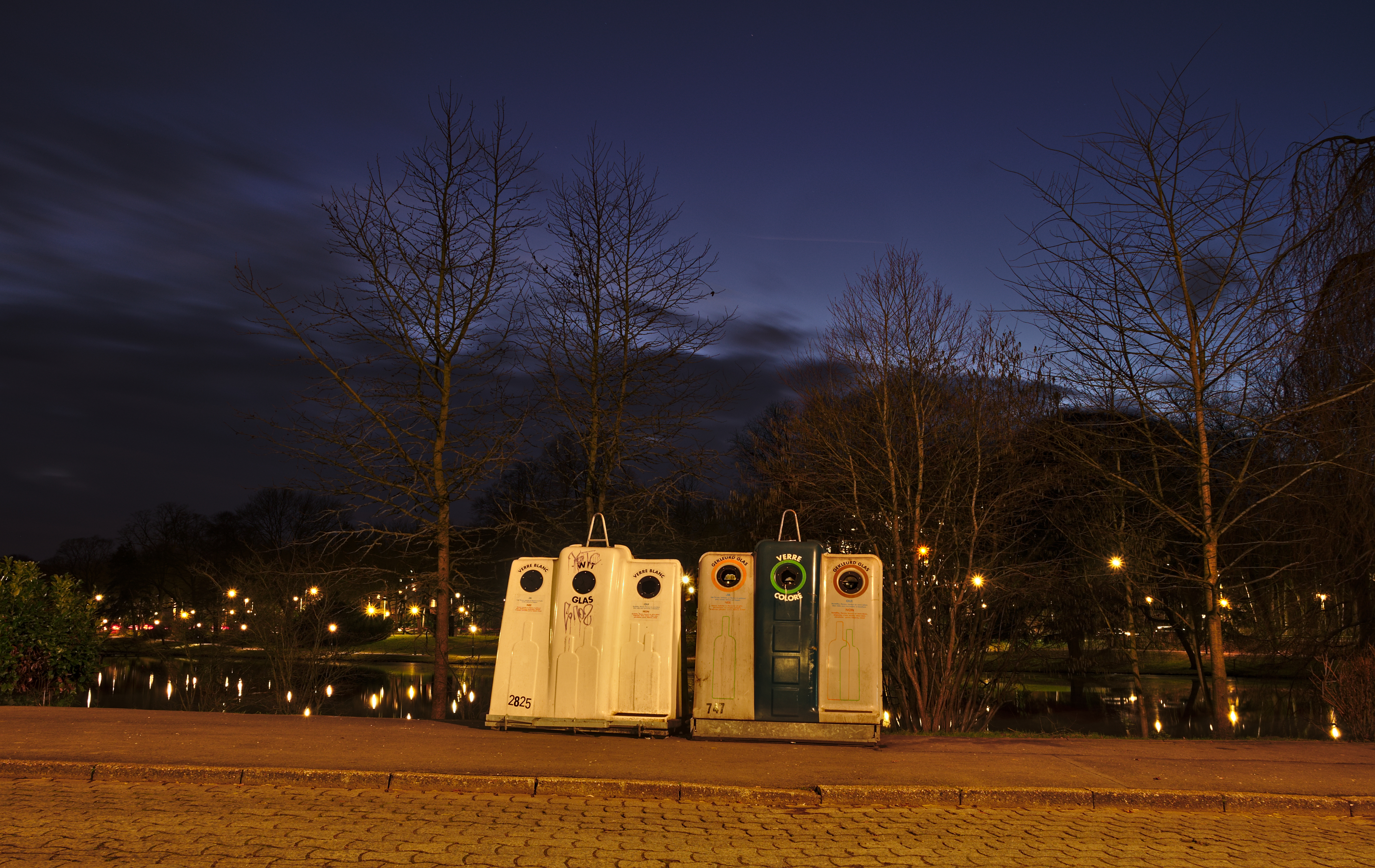 Glass salvage containers in front of Park Tenreuken during the evening nautical twilight (Auderghem, Belgium, DSCF2726)